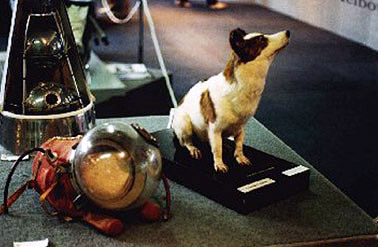 Strelka the Doggy Cosmonaut, on tour in a taxidermied form. Melbourne, Australia, 1993